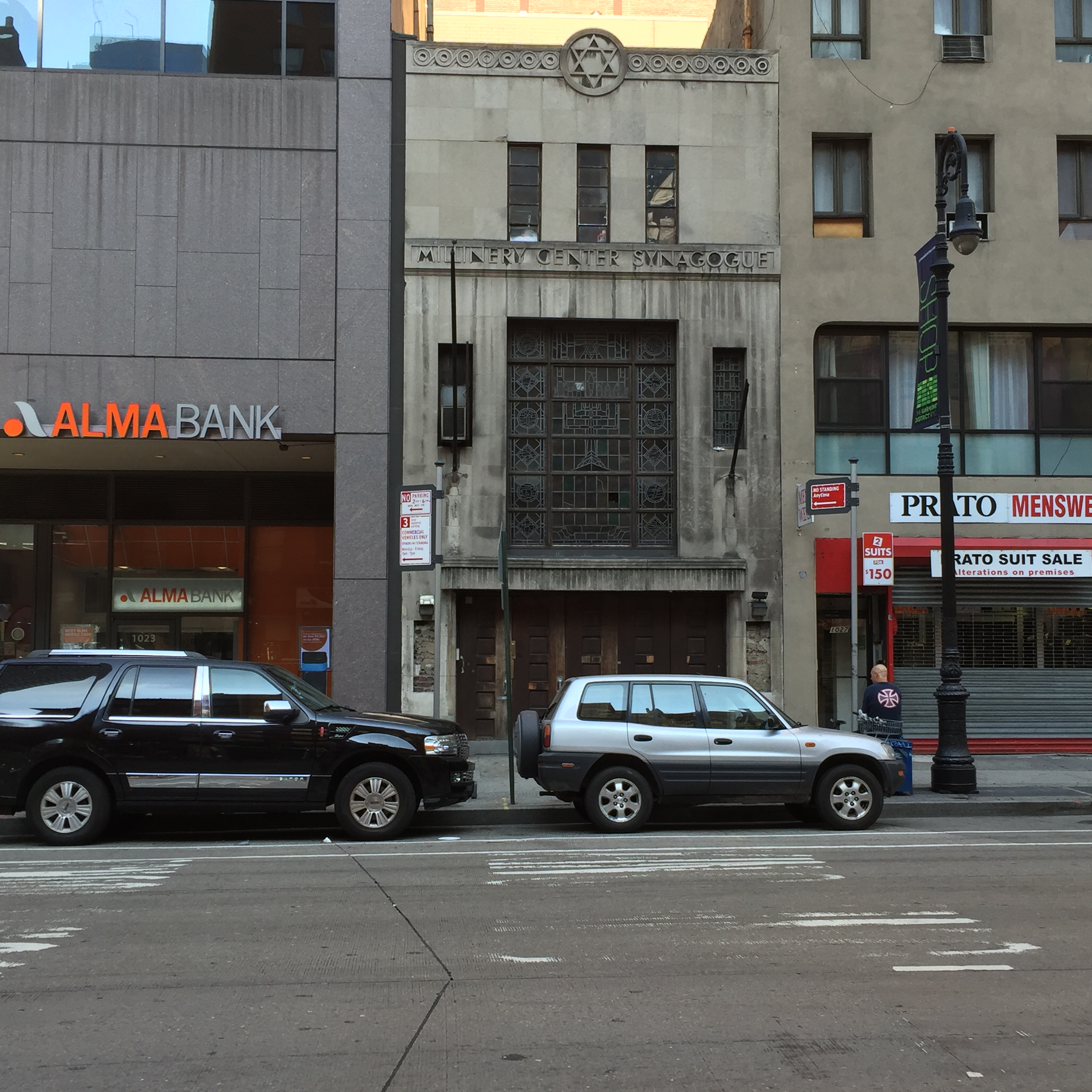 Millinery Center Synagogue, Garment Center district, New York City, Midtown Manhattan, 1025 Sixth Ave, New York, NY 10018